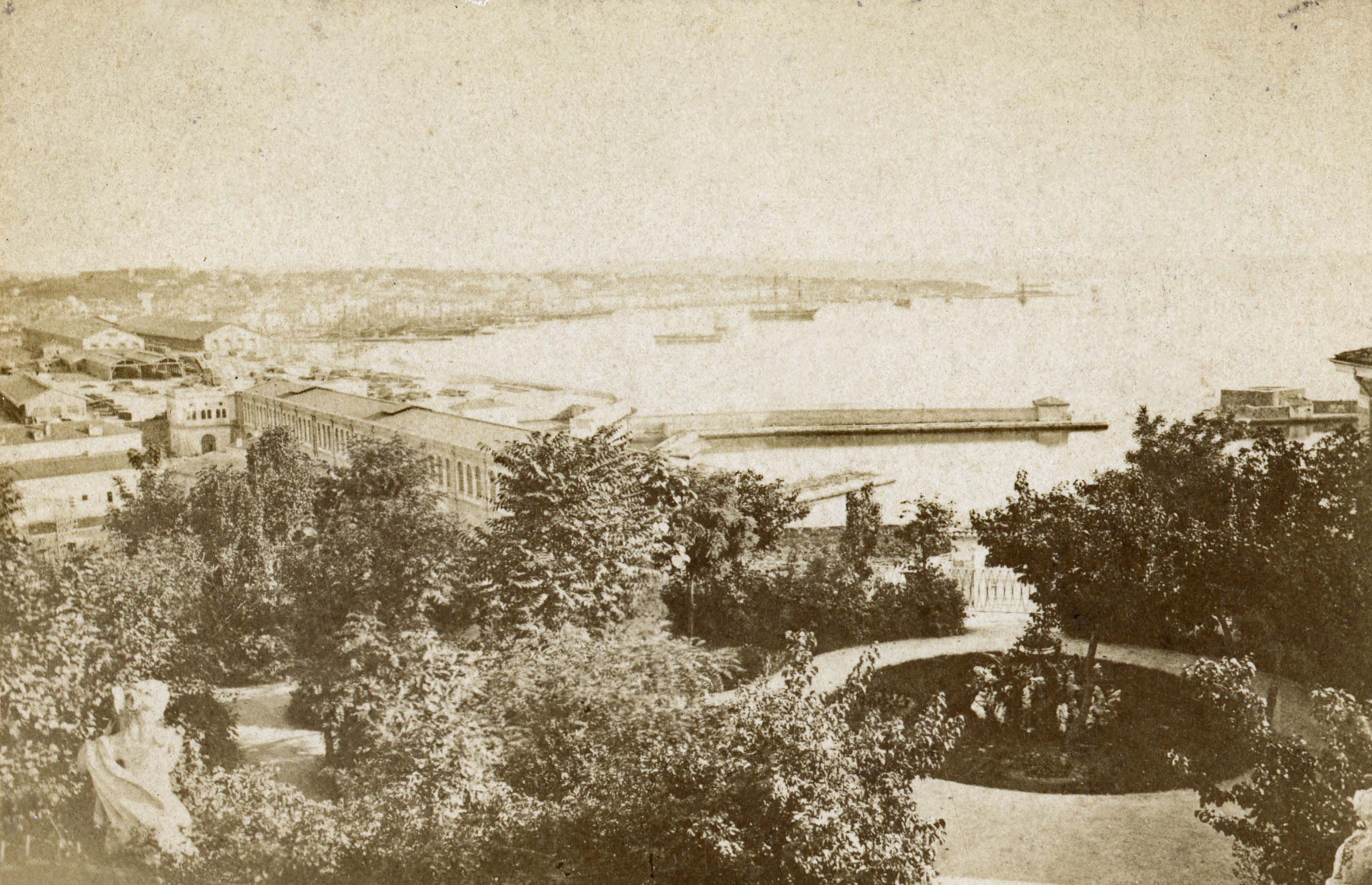 Triest Panorama by 1869, original size: 6 x 9 cm without frame